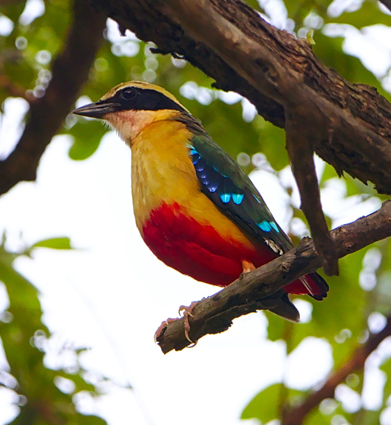 African pitta - a very difficult bird to find and photograph - from the weekend in Zimbabwe